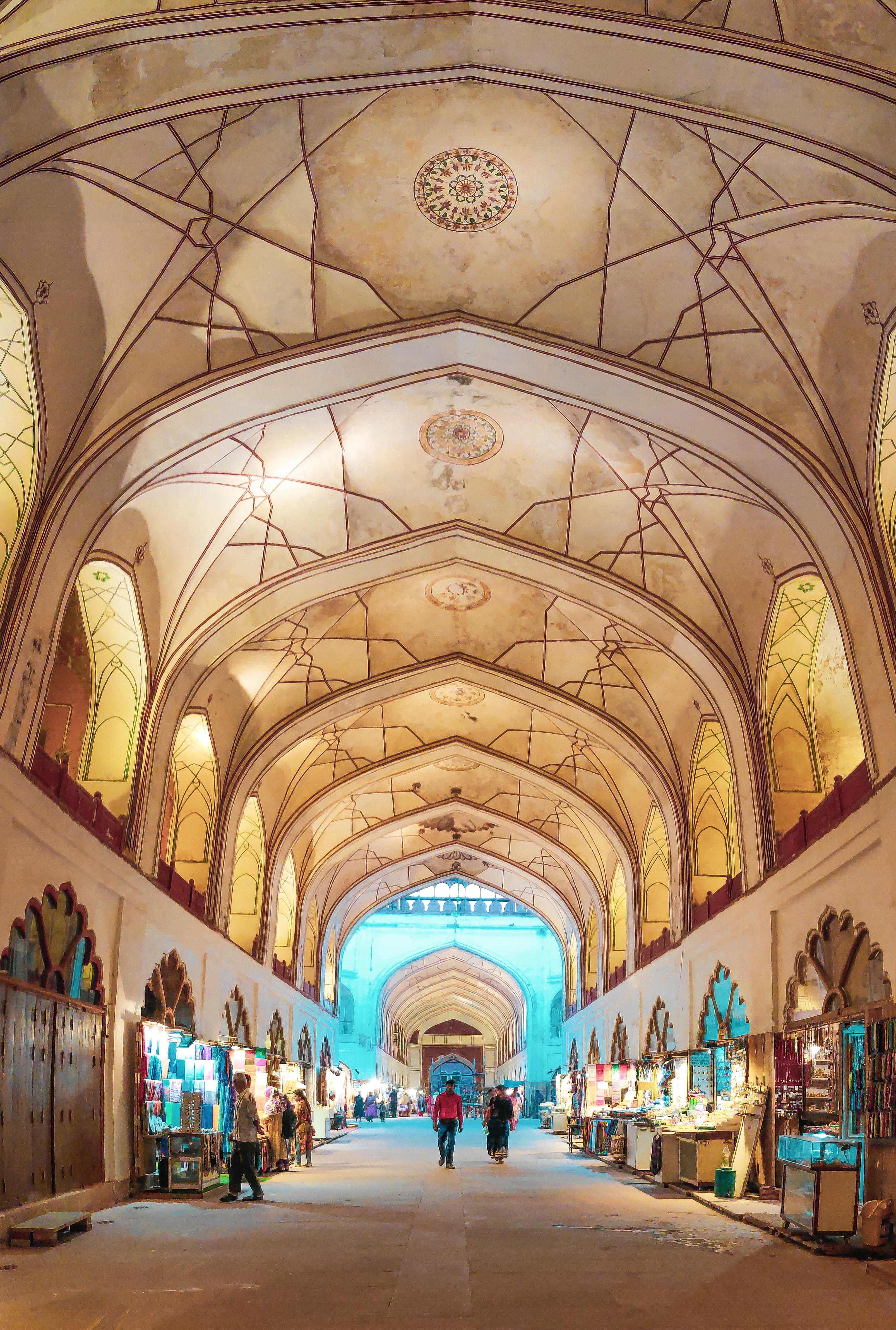 This market is built to satisfy the shopping needs of higher ranked Mughal women who live in the fort, but not ventured to move outside the fort.